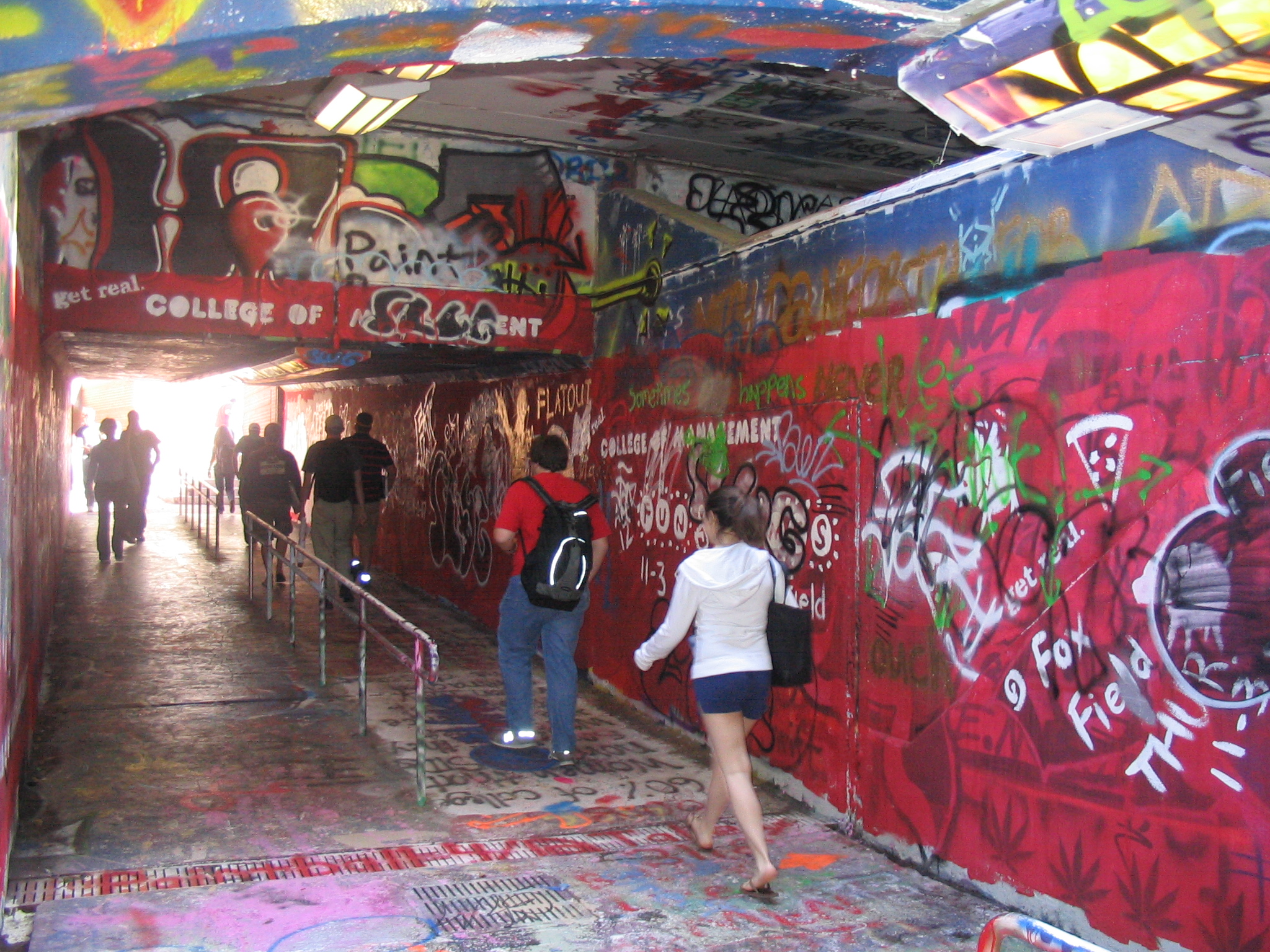 Free Expression Tunnel at North Carolina State University. Photo taken on April 12, 2007.